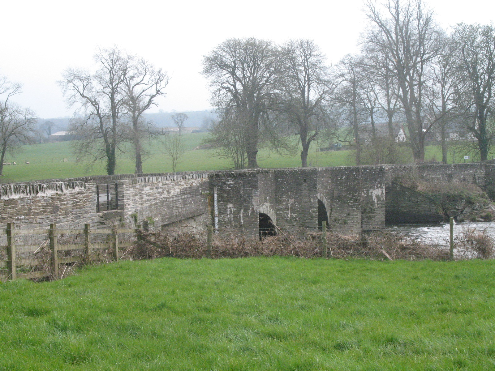 Taken by AledJames on 30th of March, 2007